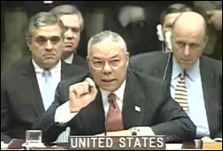 At the UN, Colin Powell holds a model vial of anthrax, while arguing that Iraq is likely to possess WMDs.